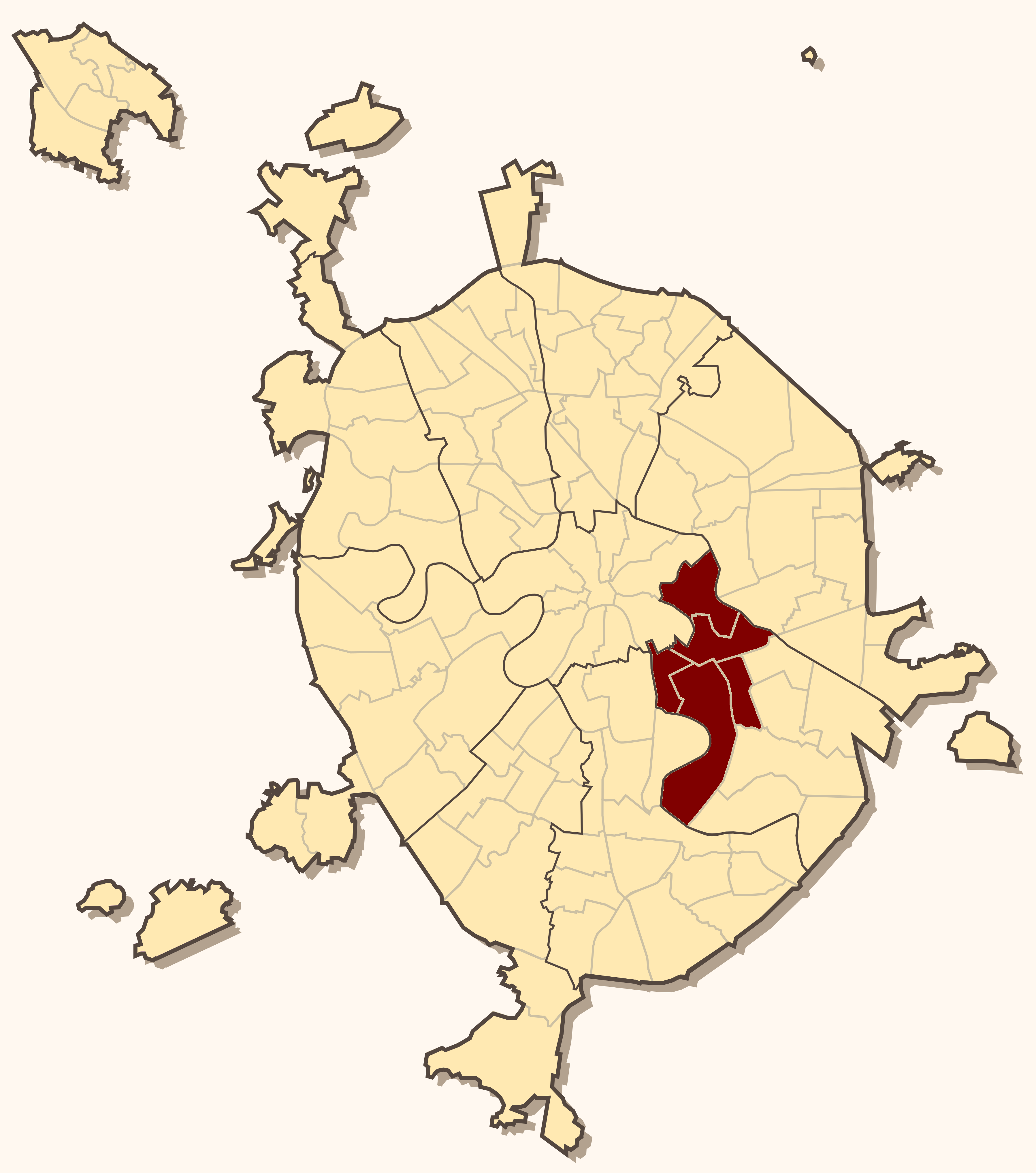 Map of Petropavlovskoe Blagochinie of Moscow